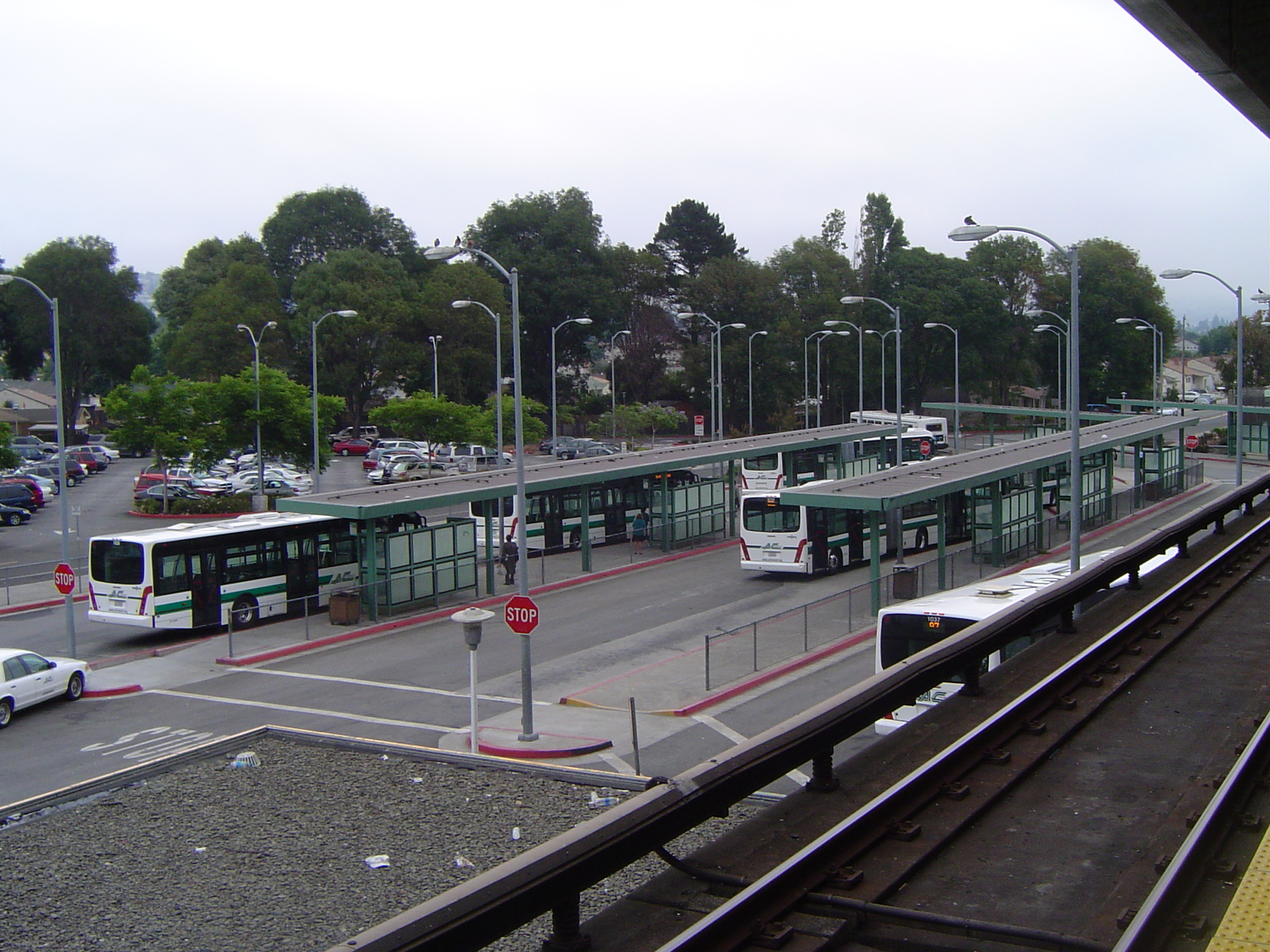 AC Transit Bay Fair bus stop